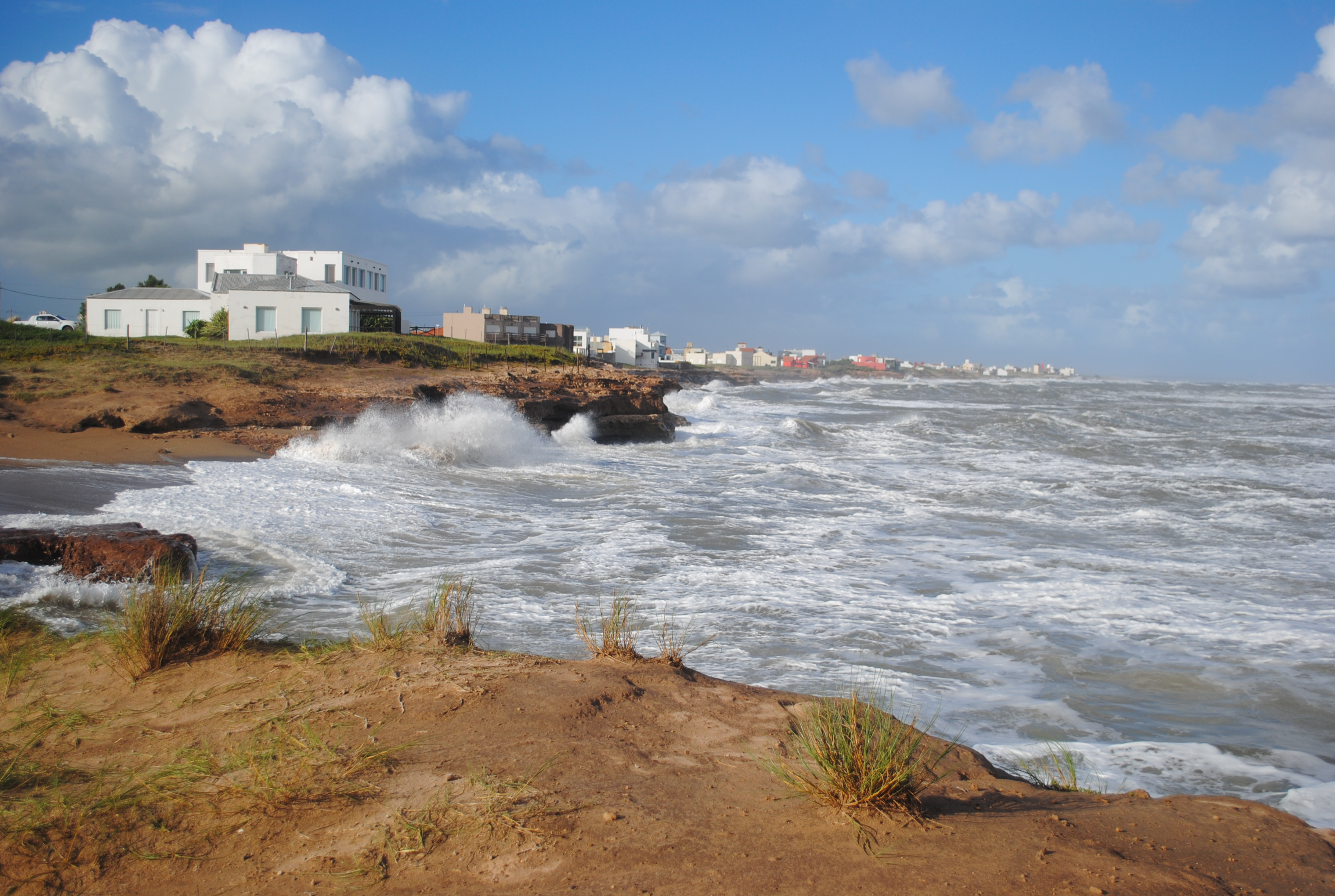 Mar del Sur, Buenos Aires province, Argentina, view from Rocas Negras